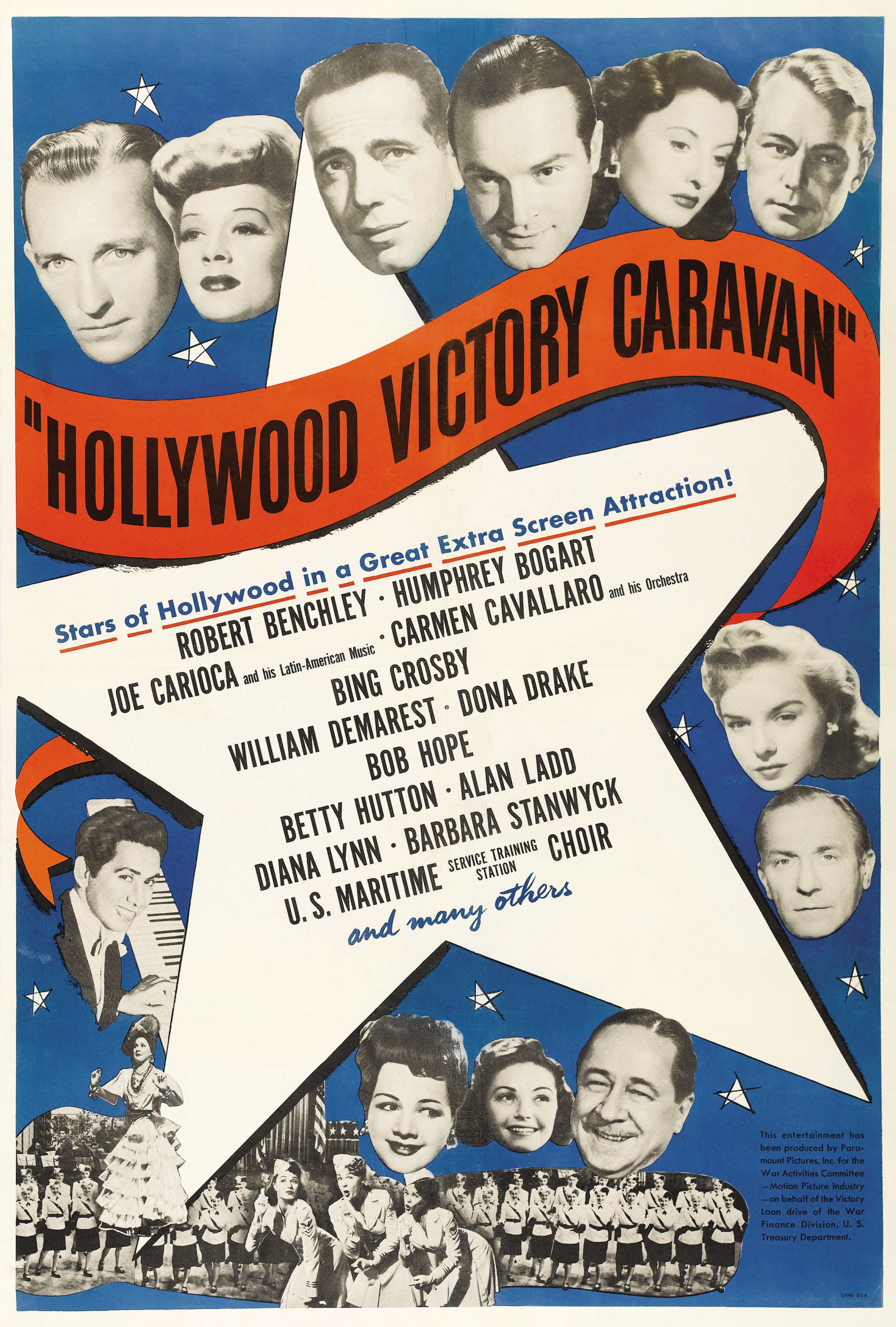 The poster for Bing Crosby and Bob Hope's short film, the Hollywood Victory Caravan. The short film was all home movies from the two actors when they were traveling with the Hollywood Victory Caravan.